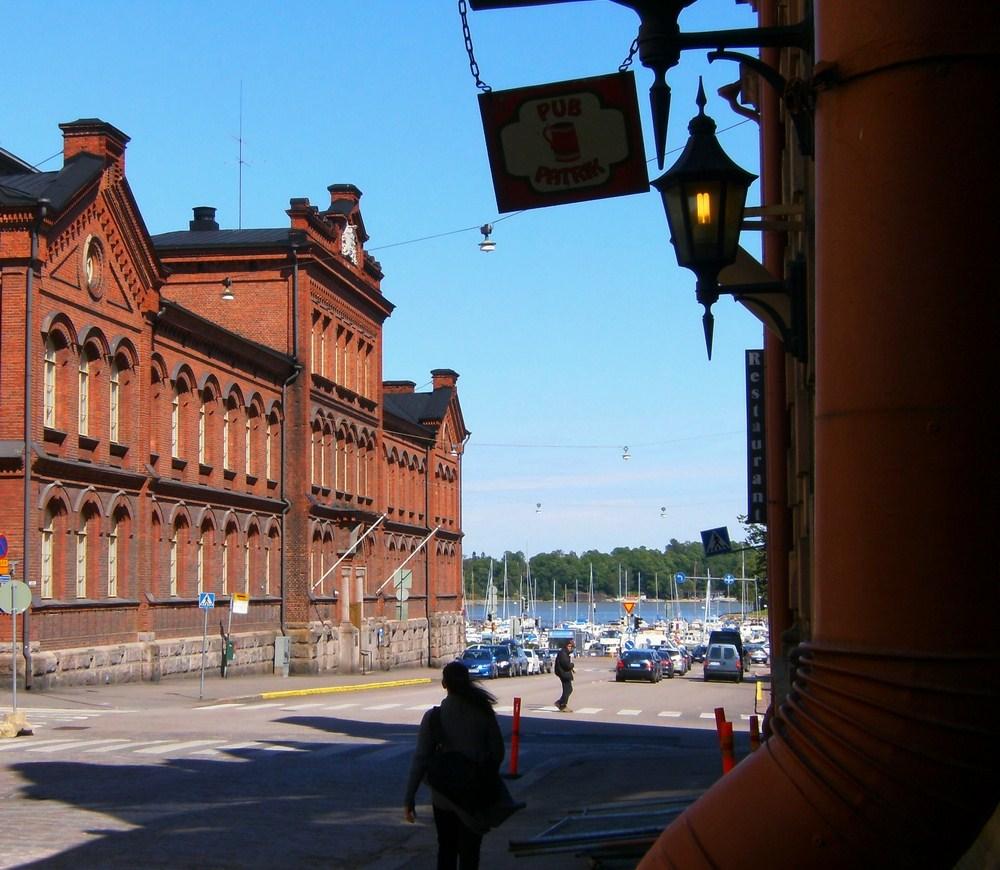 The eastern section of the street "Liisankatu", Helsinki, Finland